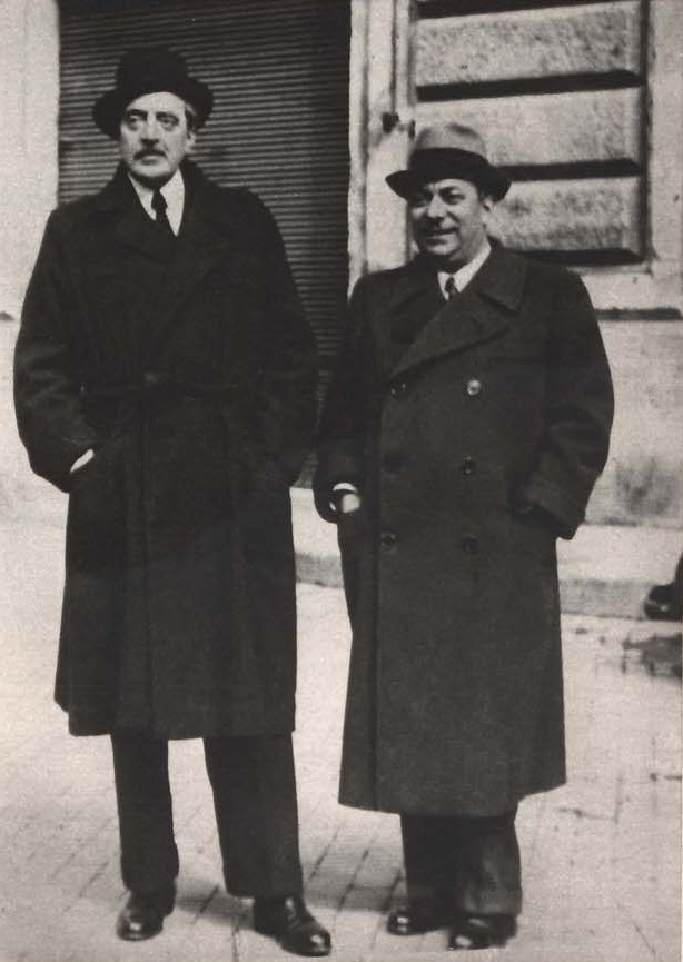 Italian publisher Arnoldo Mondadori and poet Trilussa in Rome in the 1930s